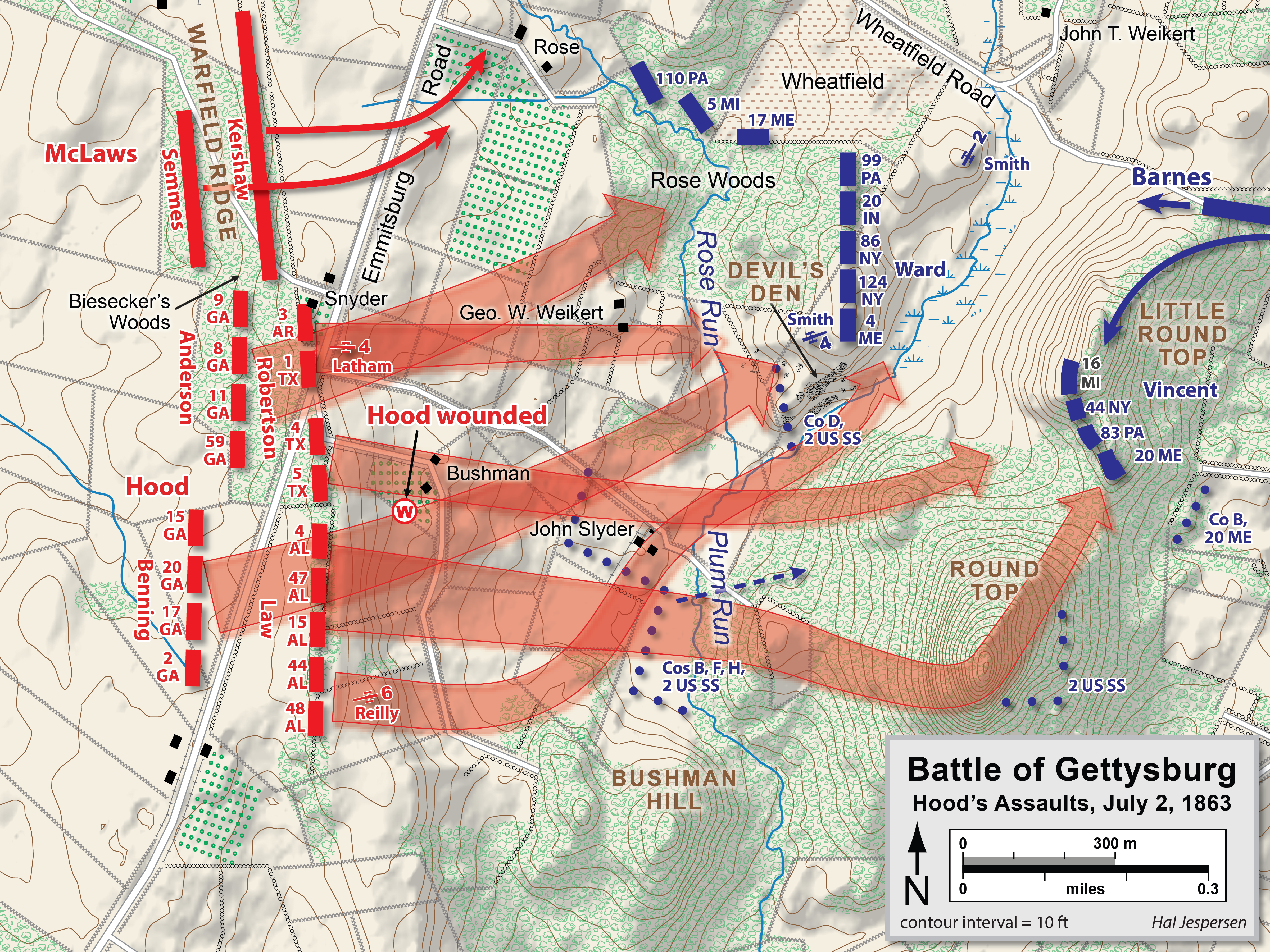 Map of Hood's assaults in the Battle of Gettysburg, Second Day, of the American Civil War. Updated unit positions and made topographical background consistent with many other Wikipedia Gettysburg maps. Drawn in Adobe Illustrator CS5 by Hal Jespersen. Graphic source file is available at